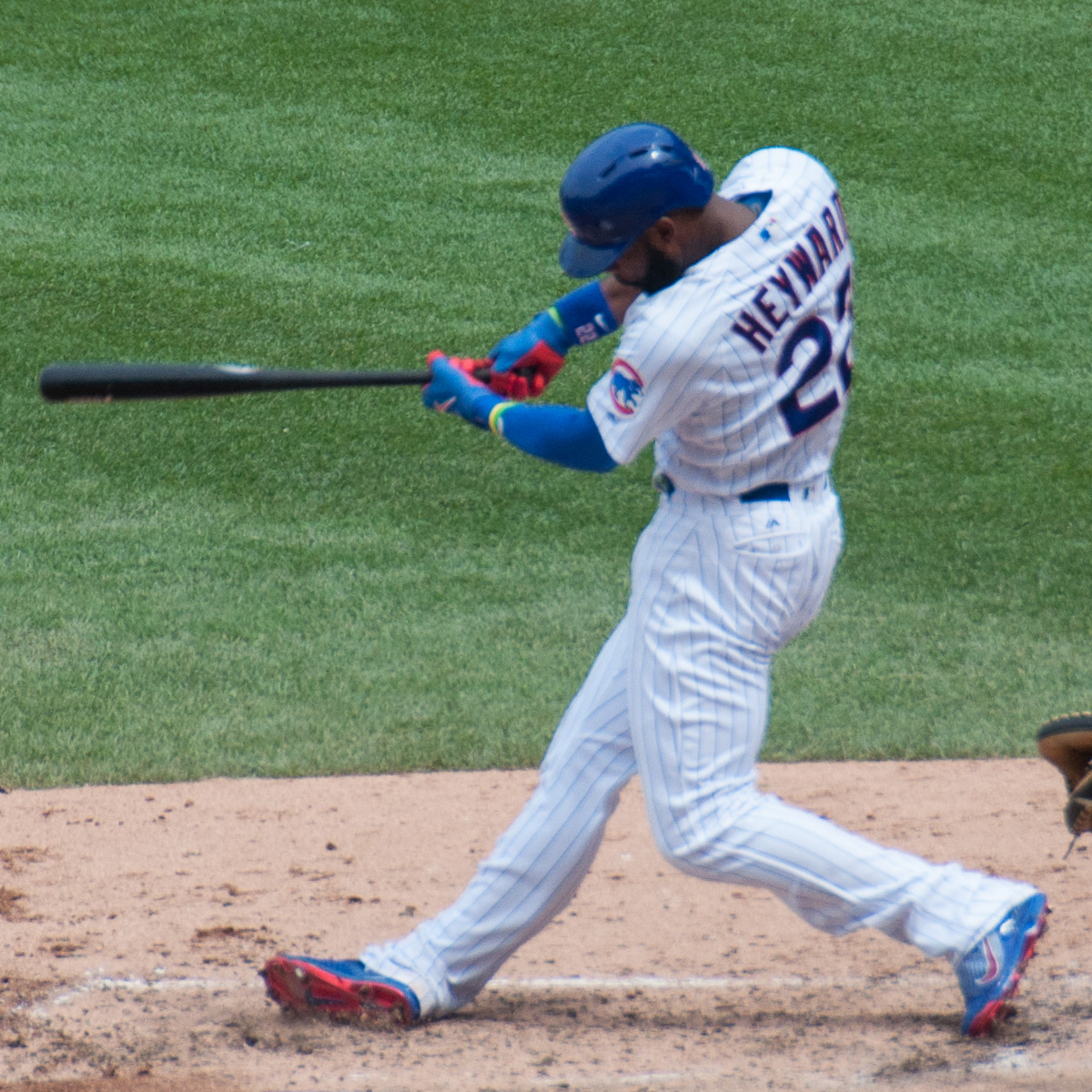 Jason Heyward